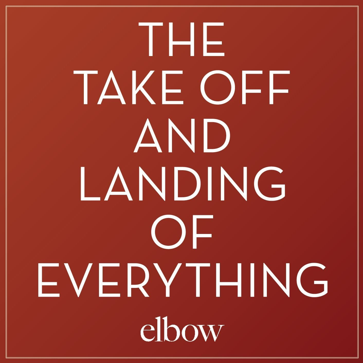 The cover to the British band Elbow's 2014 album, The Take Off and Landing of Everything